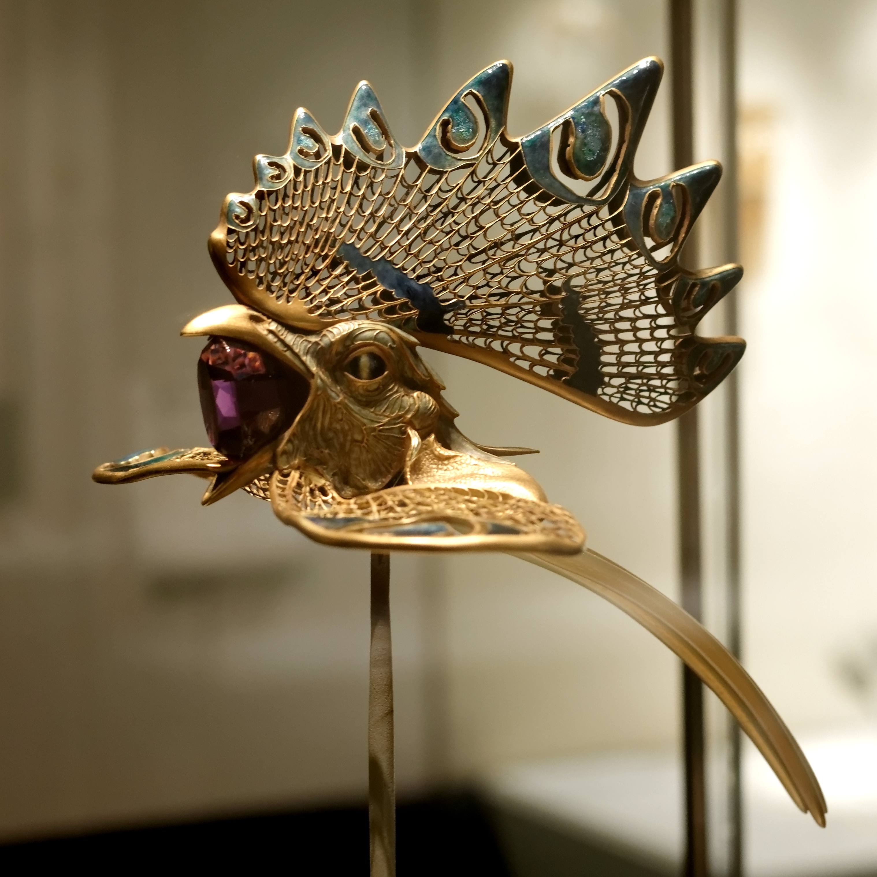 'Cockerel' diadem, French, 1897-1898. Gold, enamel, horn and amethyst .Calouste Gulbenkian Museum, Lisbon. Reference